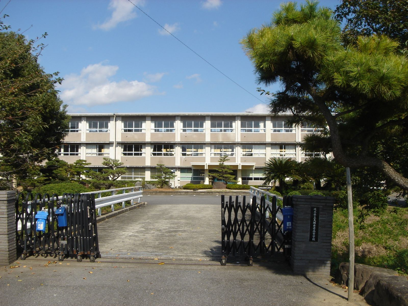 Ogaki-Yoro High School（岐阜県立大垣養老高等学校）,Yoro,Gifu,Japan(岐阜県養老町)で撮影。